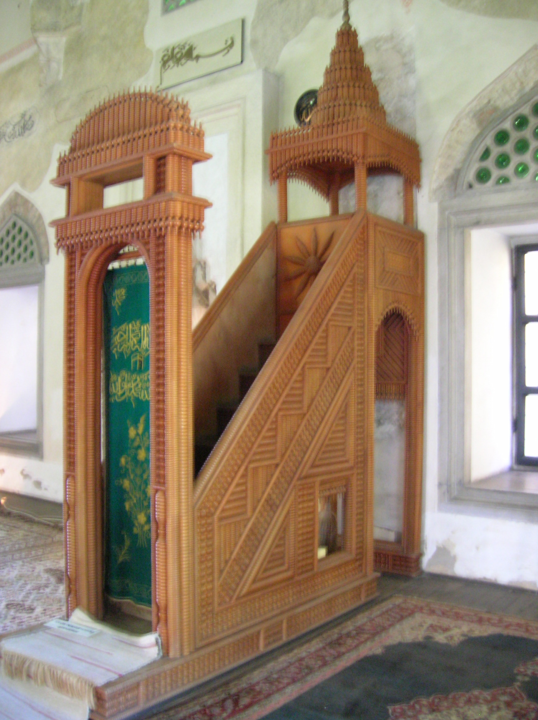 Minbar of the Yakovali Hassan mosque, Pécs, Hungary. A gift from the Republic of Turkey.